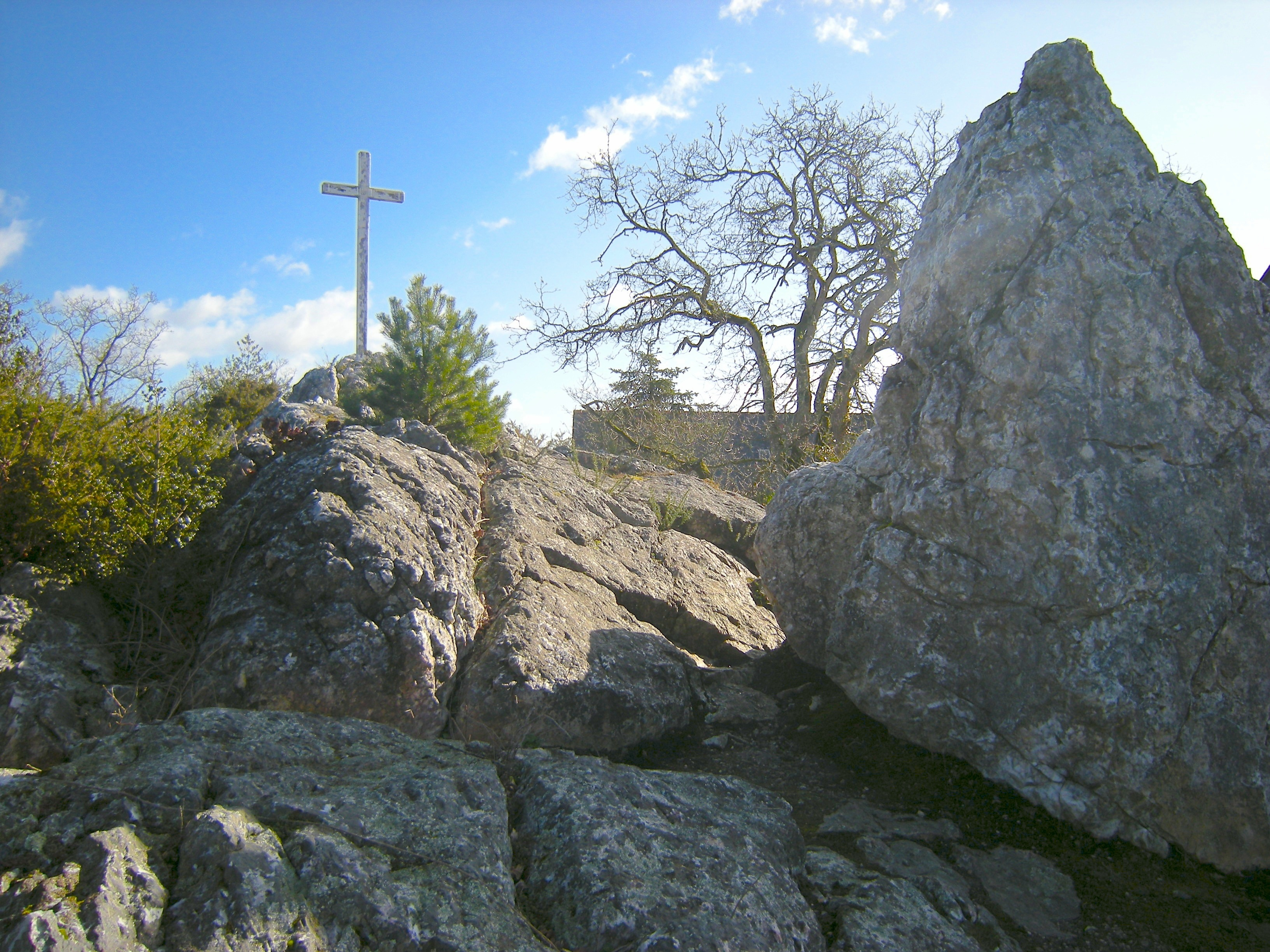 Quartz stones of Guenroc